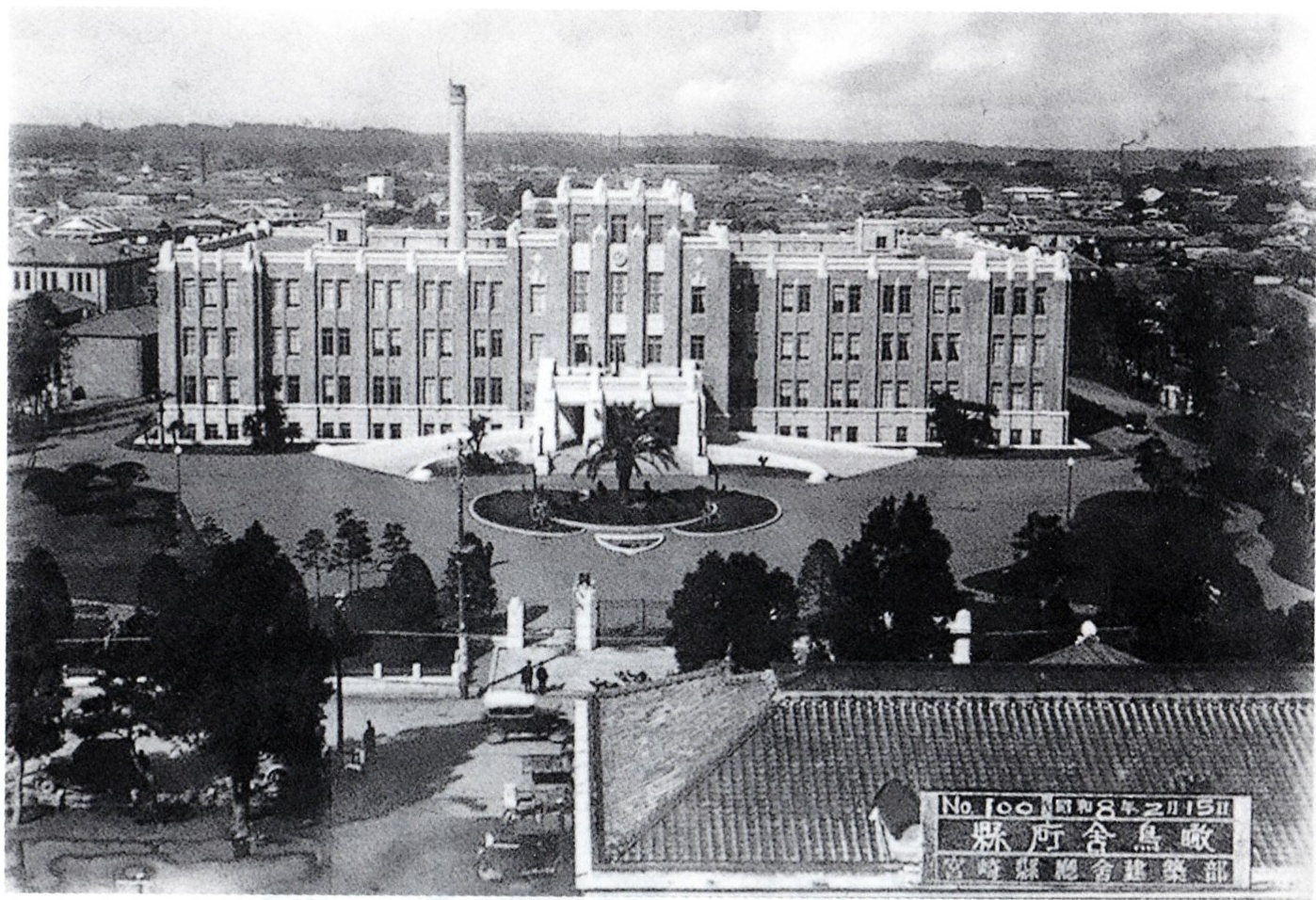 Miyazaki Prefectural Office (February, 1933)